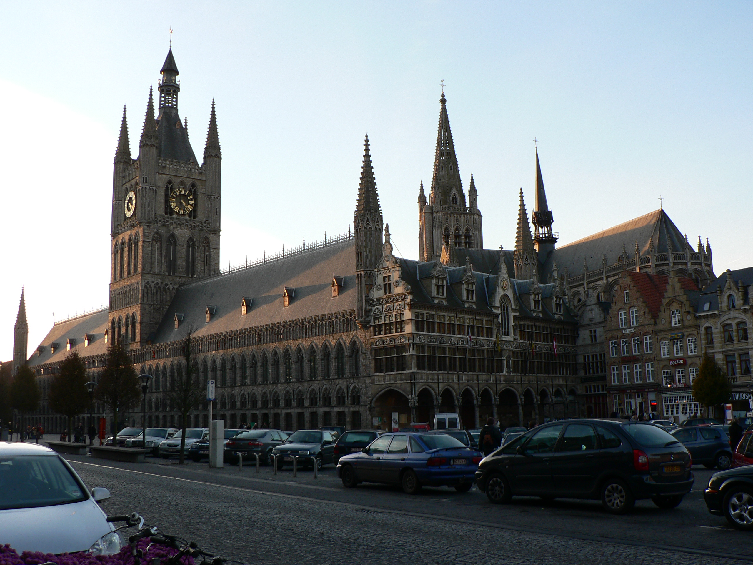 Cloth hall, Ypres, Belgium